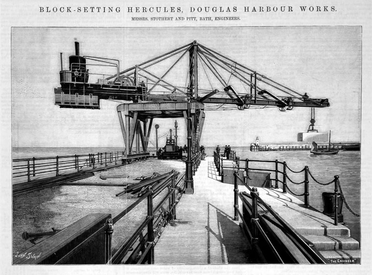 Stothert & Pitt 15 ton Hercules block-setting crane for works at Douglas Harbour, Isle of Man